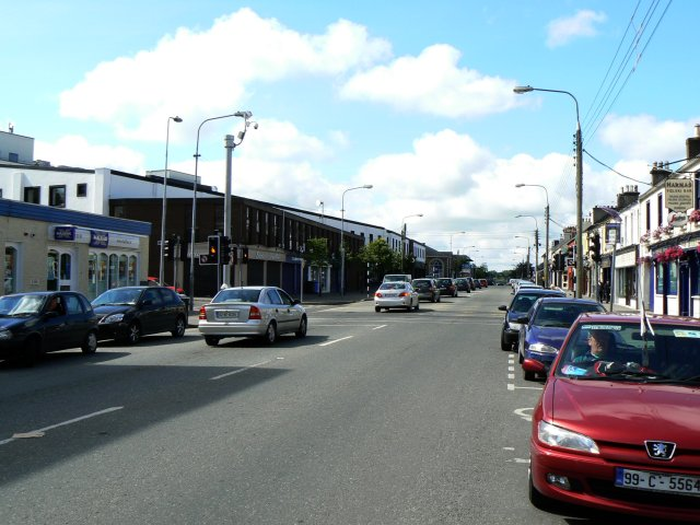 Newbridge (Droichaid Nua). Looking along Edward Street.